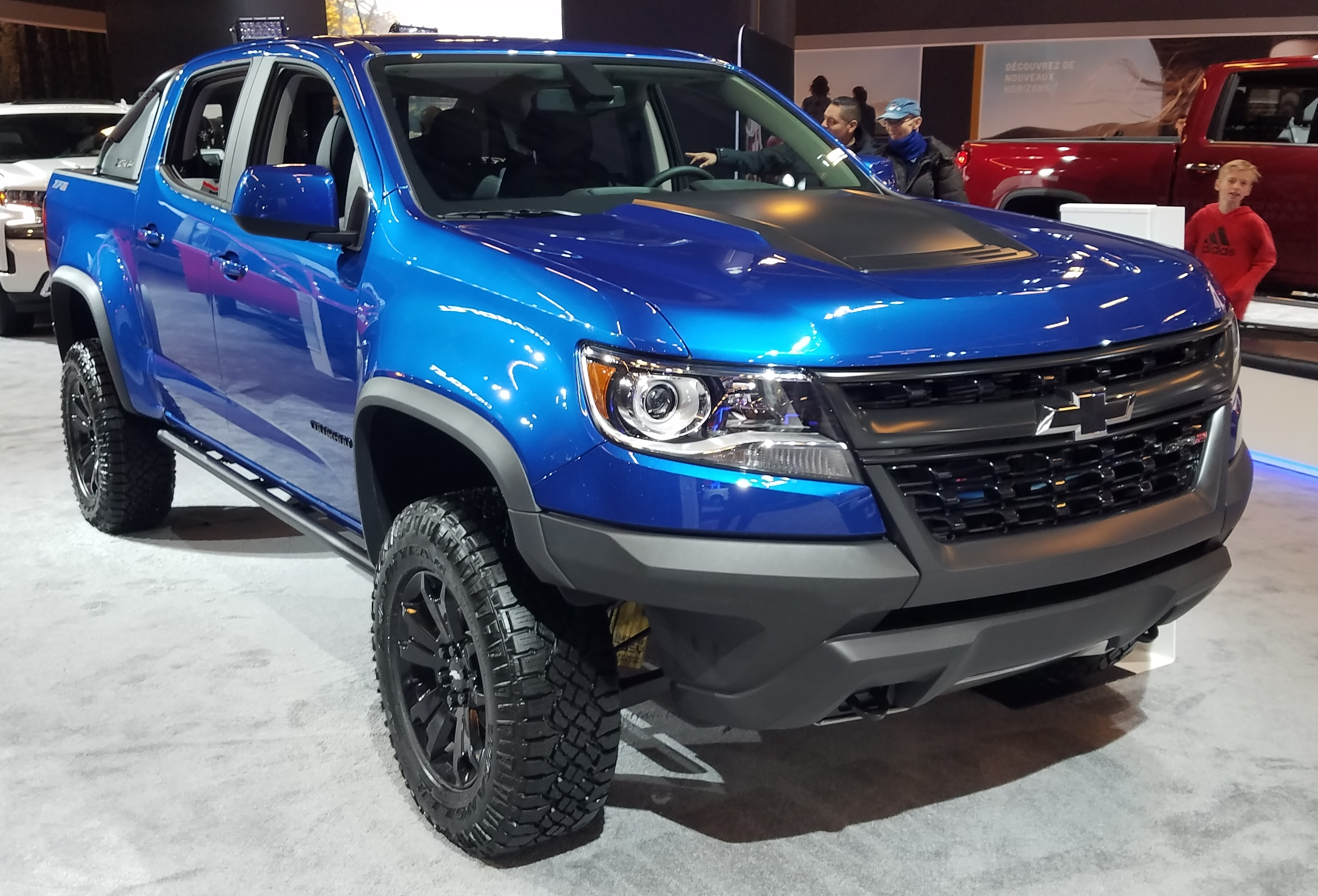 2020 Chevrolet Colorado photographed in Montréal , Québec , Canada at the 2020 Montréal International Auto Show.